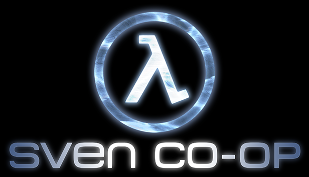 Sven Co-op logo used on the Steam store.